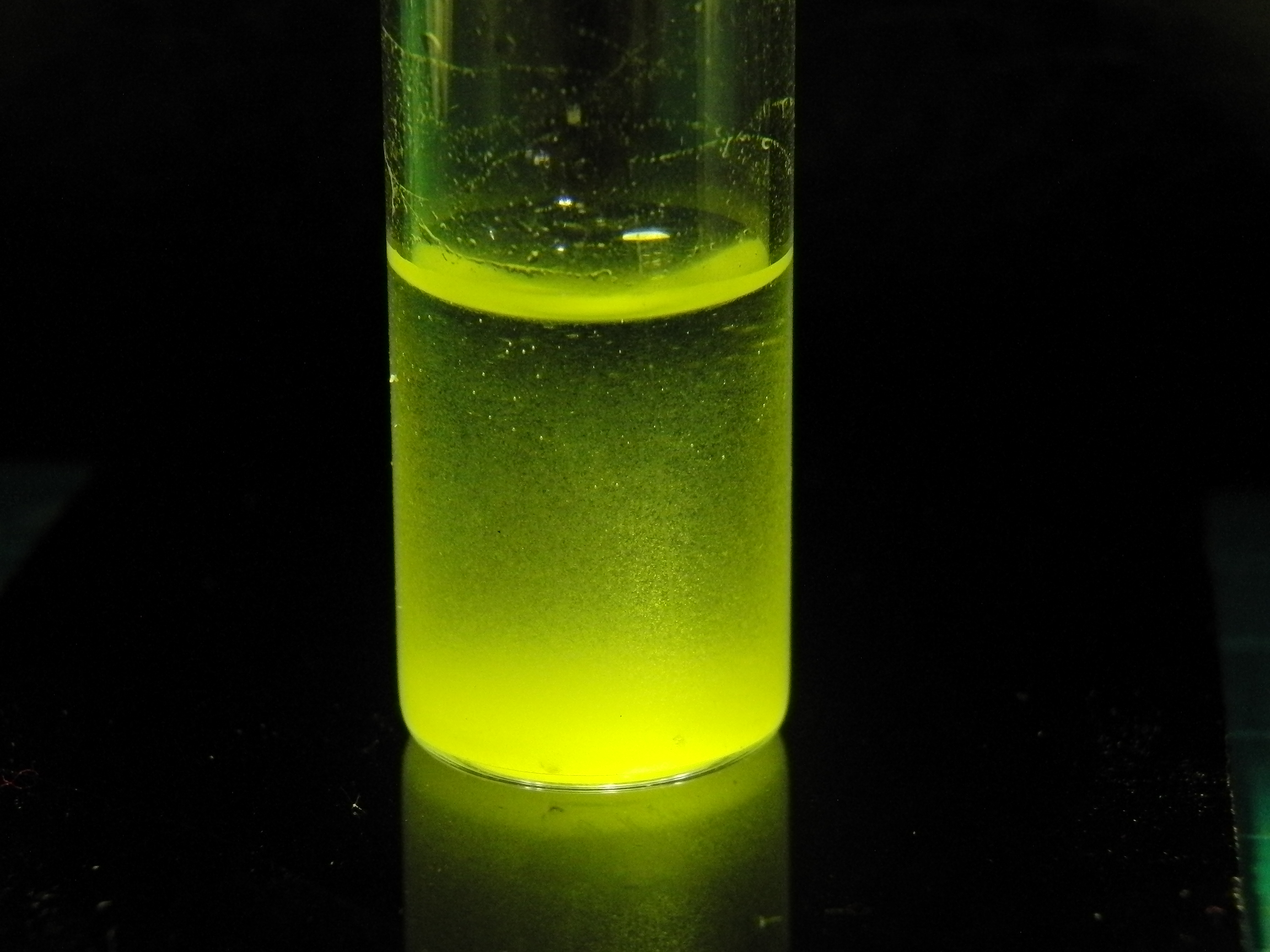 Uranyl magnesium sodium acetate. Uranyl magnesium acetate is a reagent to test the existence of sodium in a solution.